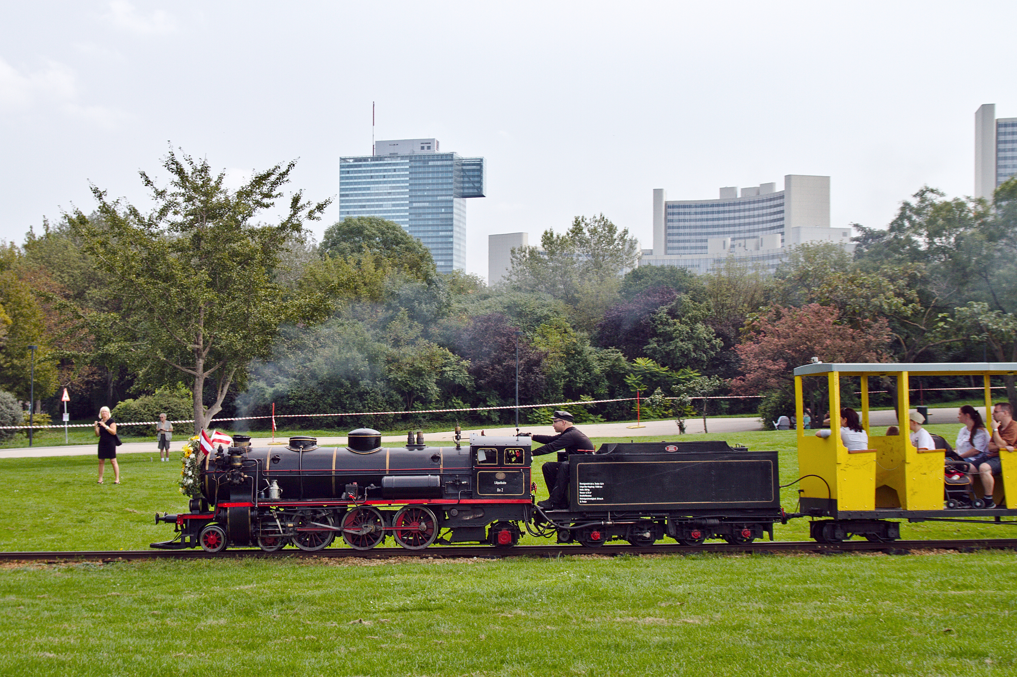 Liliputbahn Da2 with anniversary train on the Donauparkbahn.